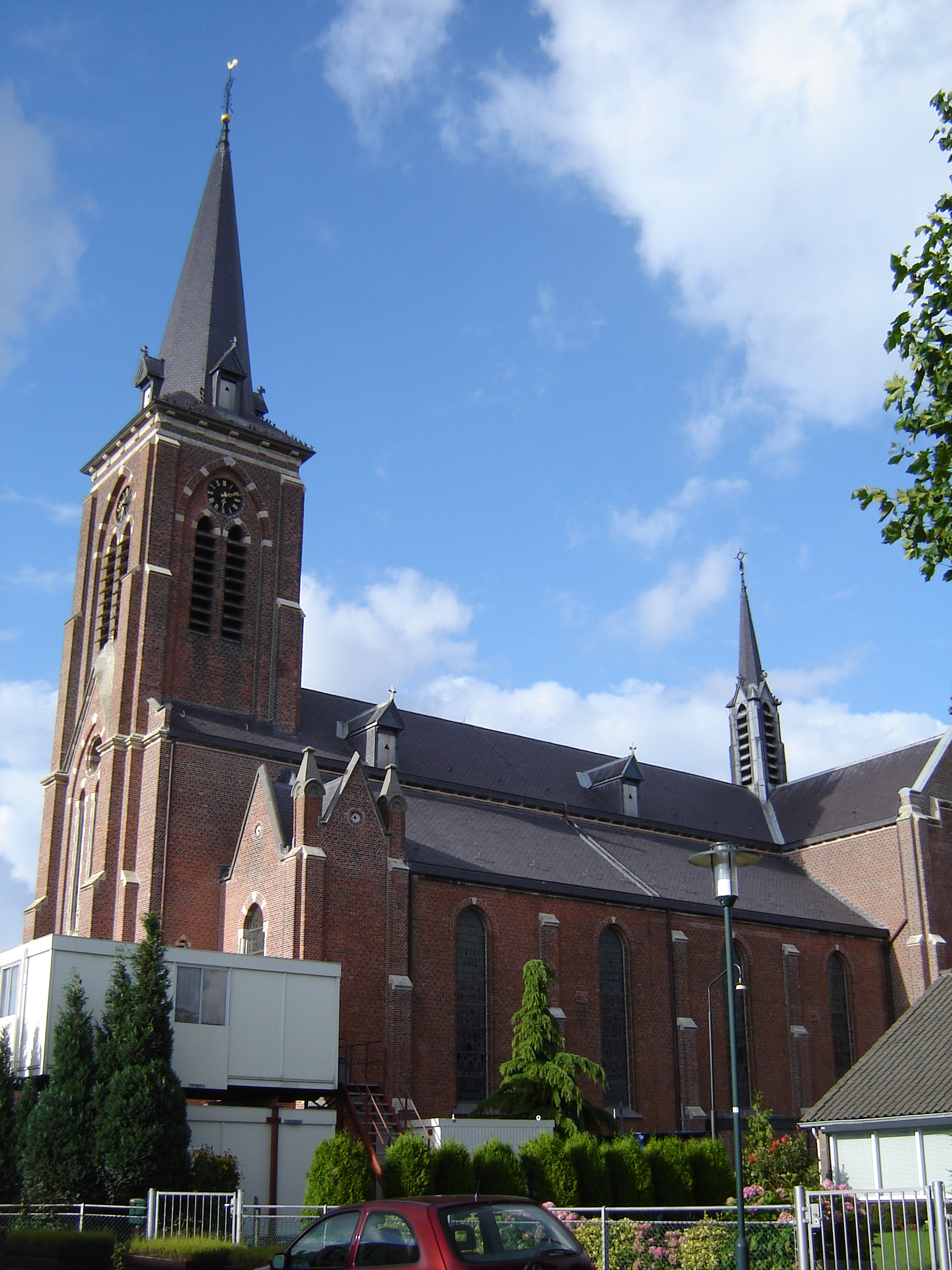 Church of Saint Cornelius in Lamswaarde. Lamswaarde, Hulst, Zeeland, the Netherlands